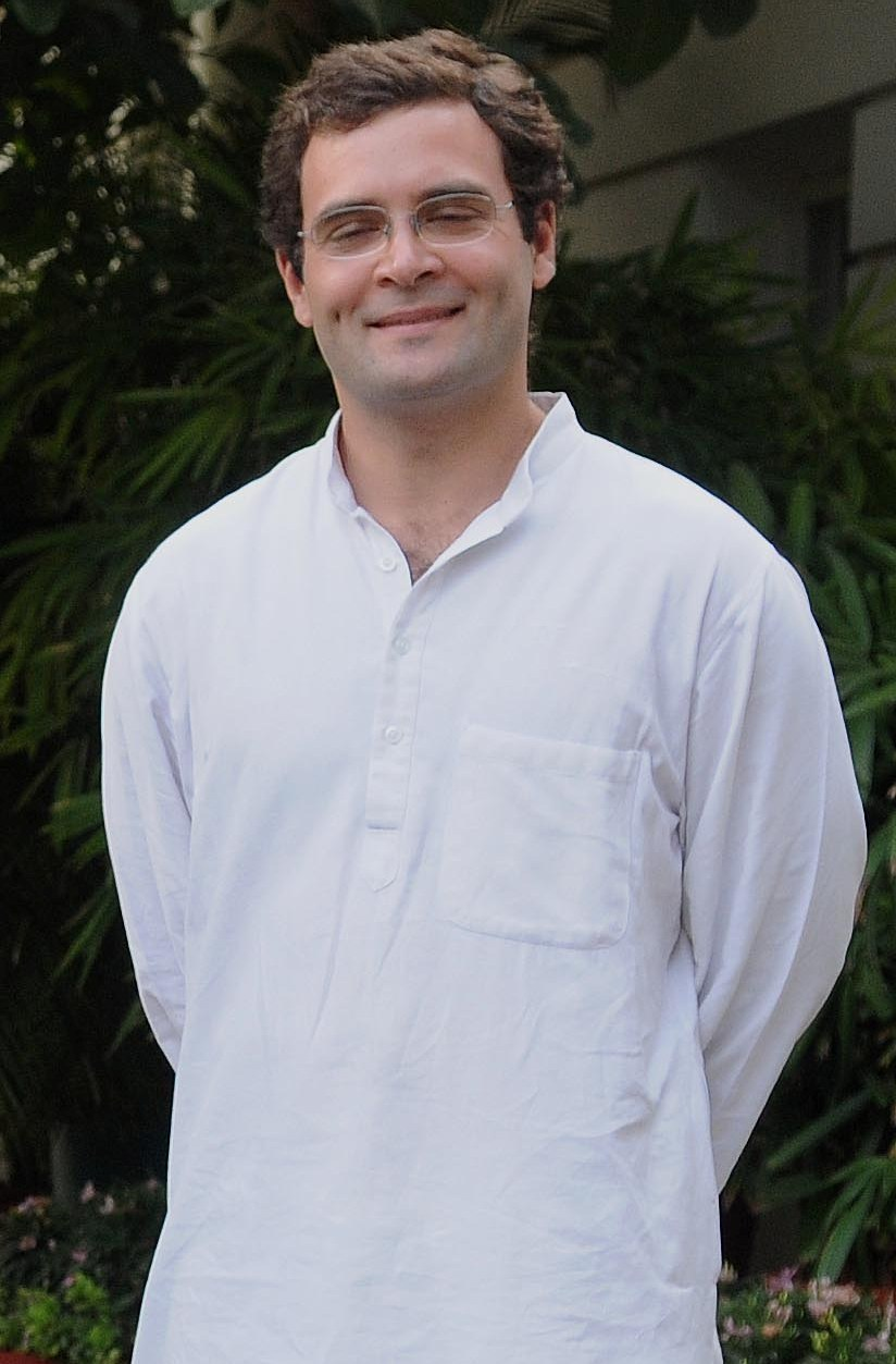 Rahul Gandhi, from a United States Department of State photograph showing a meeting between Hillary Rodham Clinton, Sonia Gandhi, Karan Singh and Rahul.